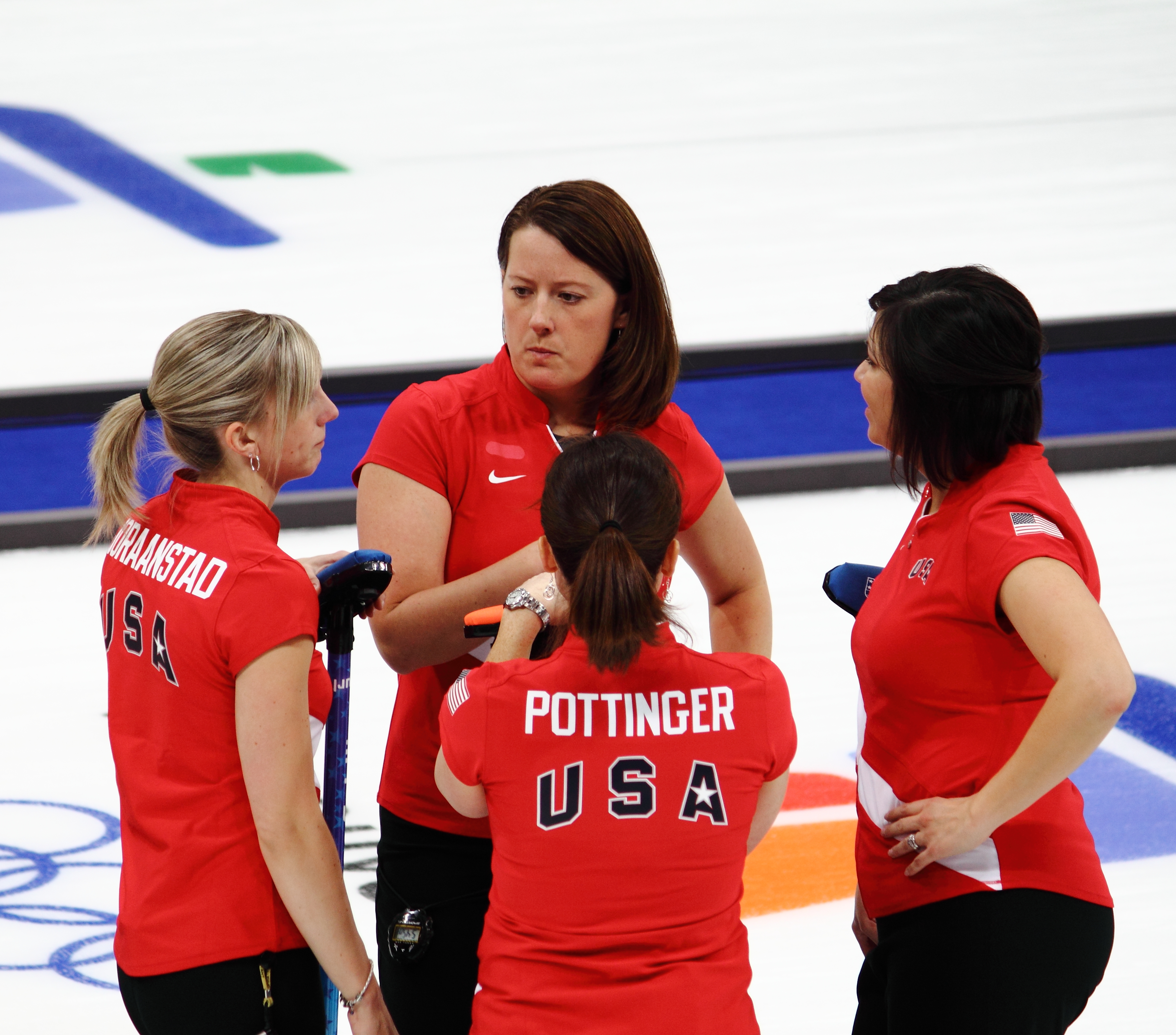 2010 Vancouver Olympic Games - Women's Curling - Preliminary from Vancouver Olympic Centre